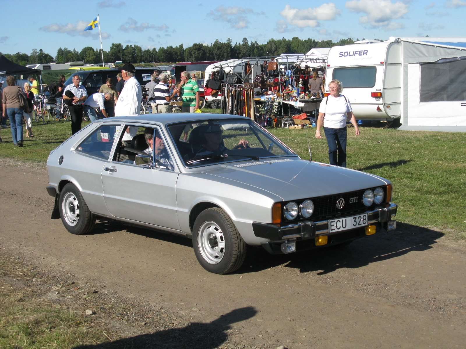 1976 Scirocco GTi